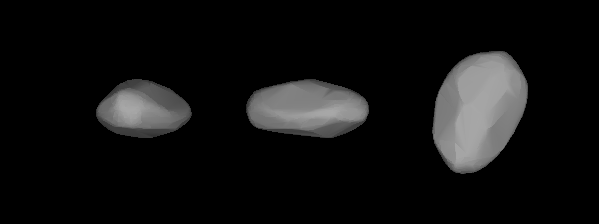 A three-dimensional model of 121 Hermione that was computed using light curve inversion techniques.